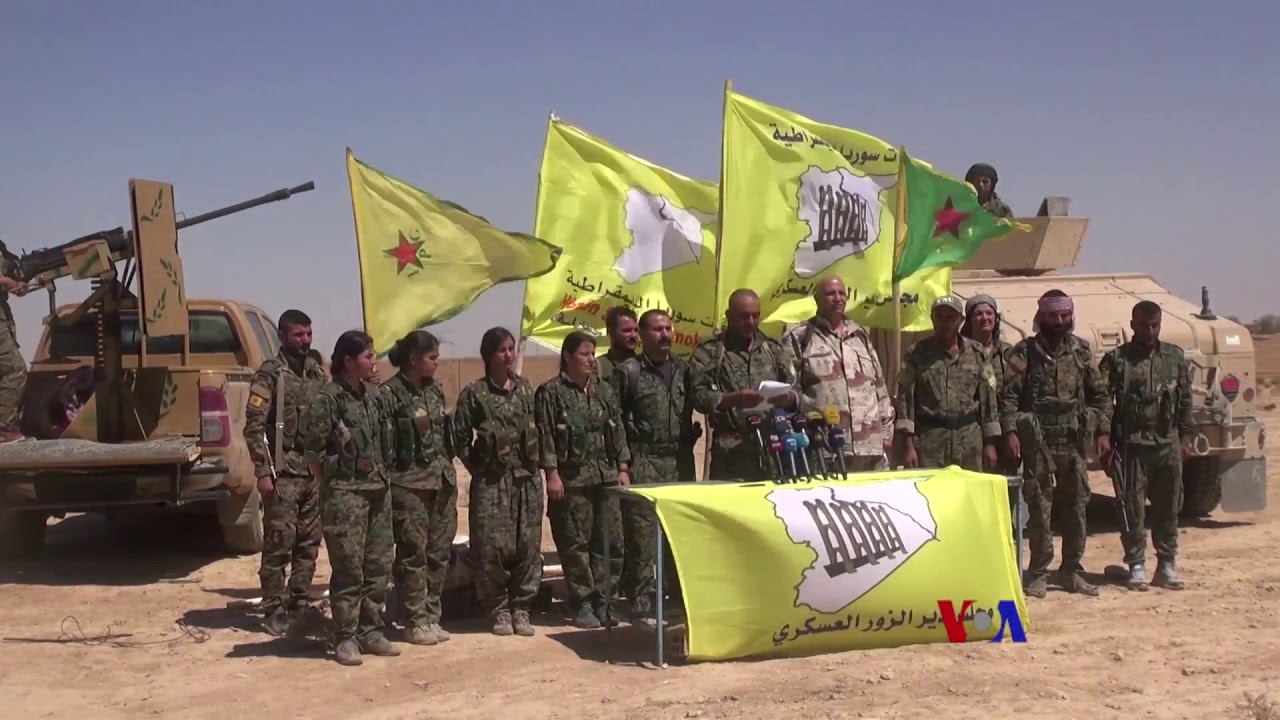 The Syrian Democratic Forces announce an offensive north of Deir ez-Zor.